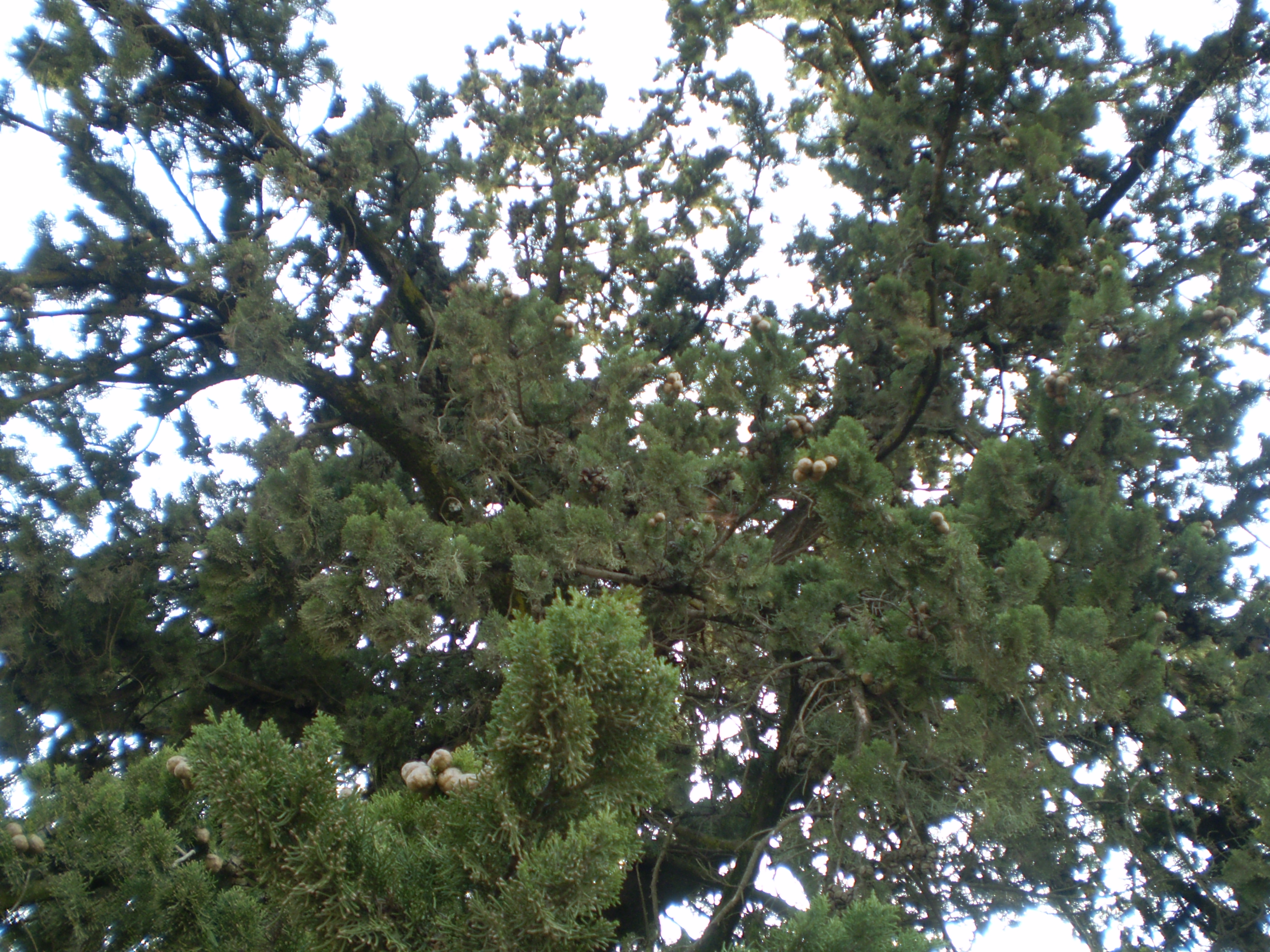 Old Mediterranean Cypress (Cupressus sempervirens) at Um Jawze Valley to the southwest of the city of Sakib, Jordan